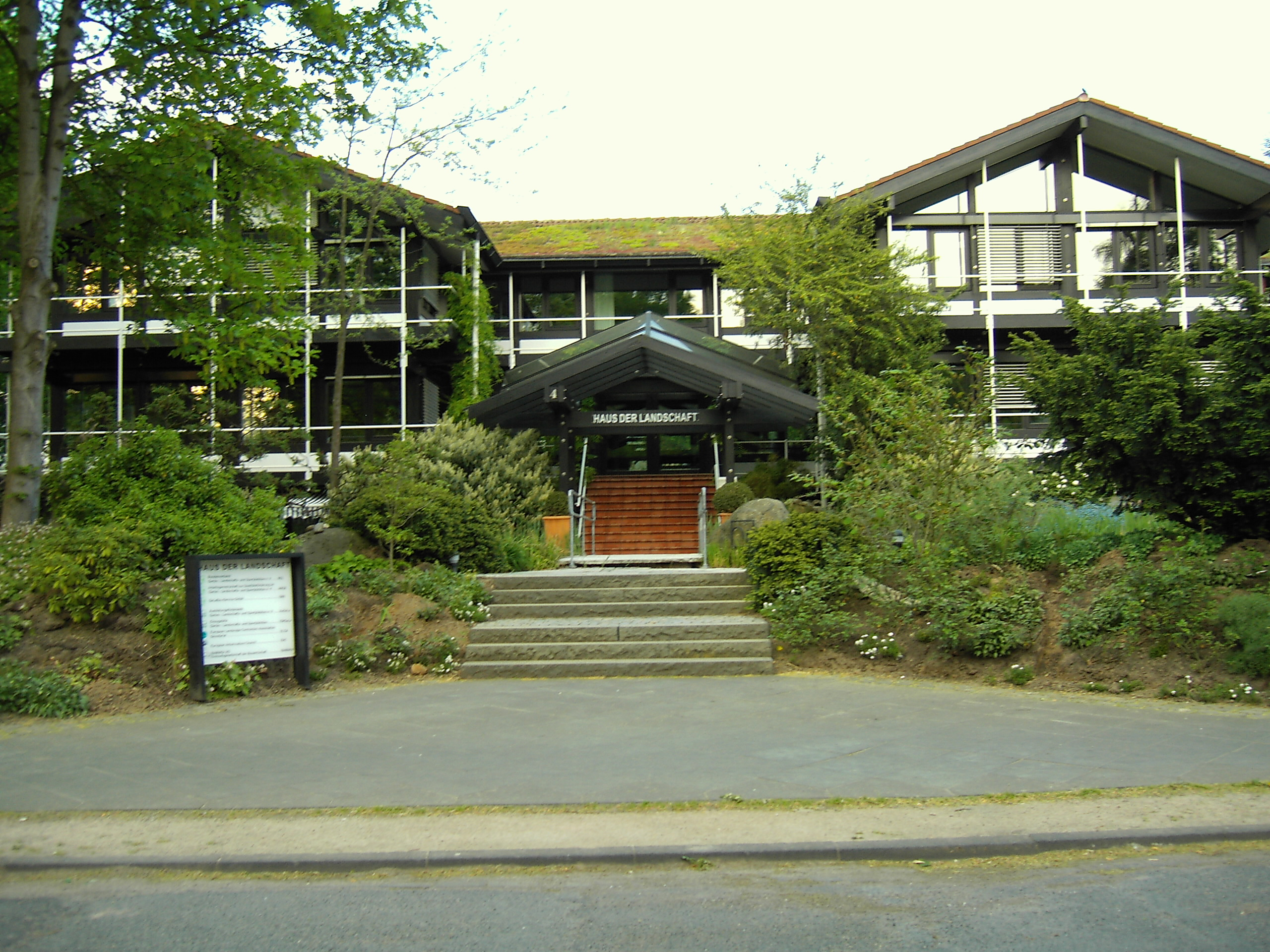 “House of Agriculture”, seat of the Bundesverband Garten-, Landschafts- und Sportplatzbau (“Federal federation for horticulture, landscape and sports ground construction”) in Bad Honnef near Bonn. The building is located in the street Alexander-von-Humboldt-Straße.